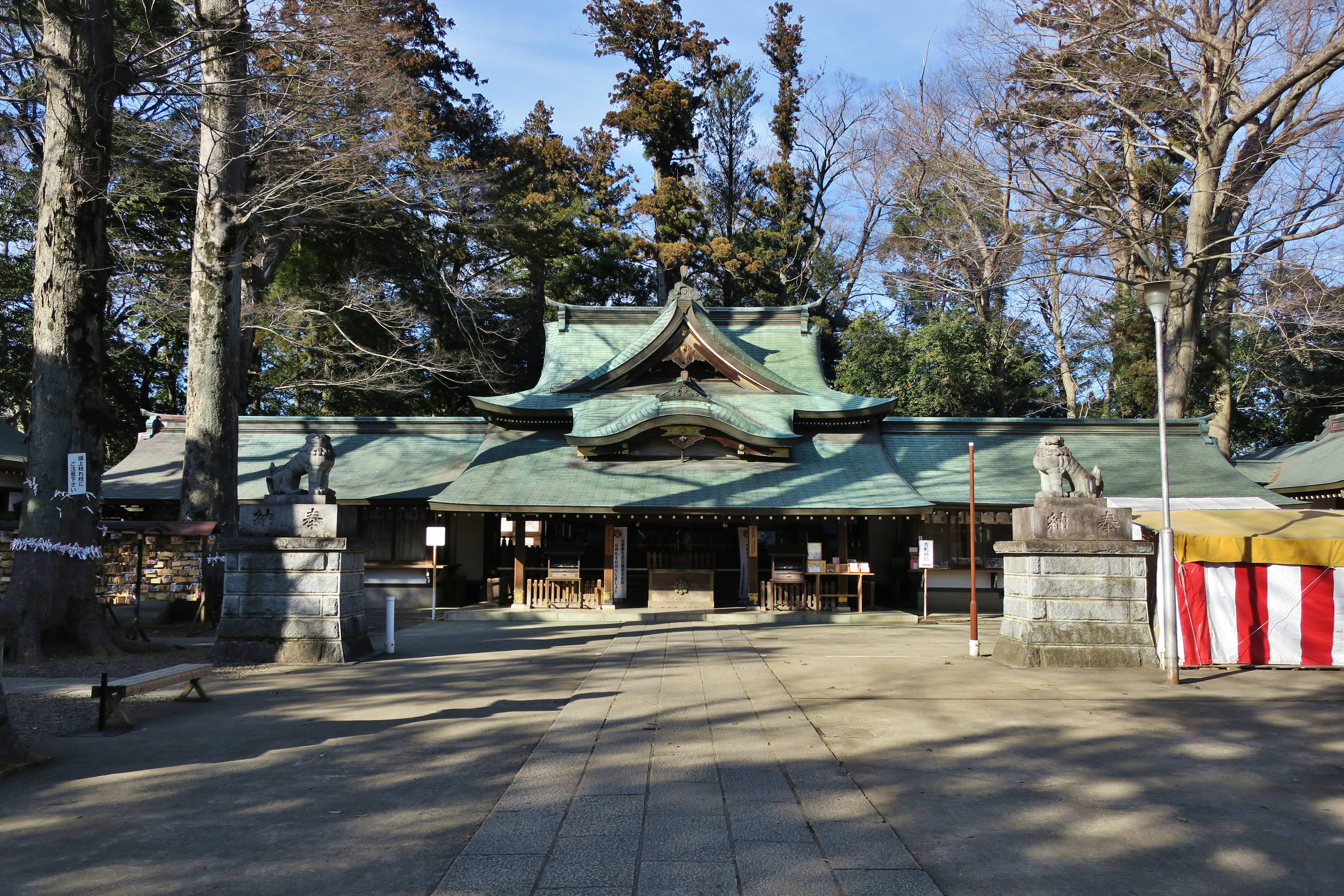 Hitokotonushi-jinja.